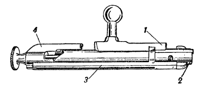 Russian M1891 Repeating Rifle Bolt